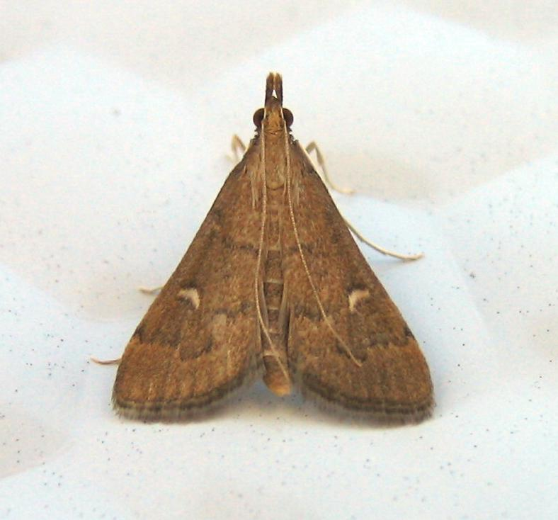 Dolicharthria punctalis (Denis & Schiffermüller 1775) (Pyraloidea, Lepidoptera), Roussillon, Frankreich